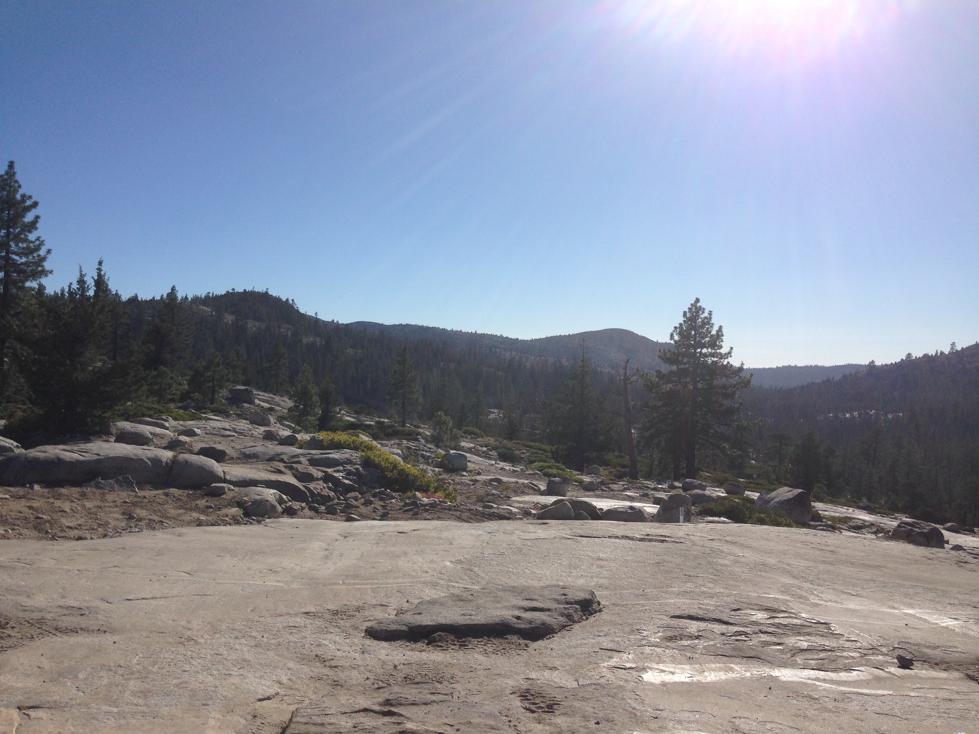 The middle point of the Rubicon Trail where many start their journey with their Off-Highway Vehicles